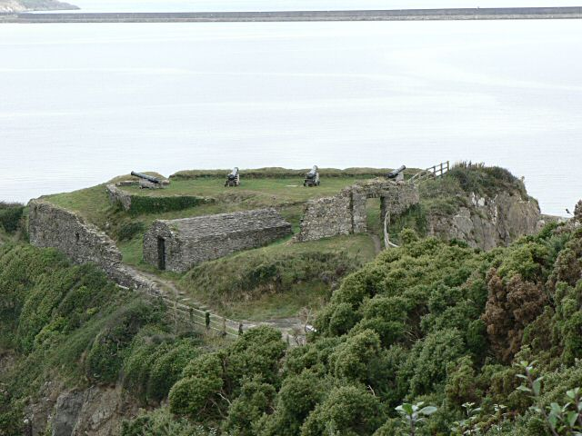 Castle Point. This 18th century fort was built following an attack on the town by the American privateer Paul Jones during the War of Independence.